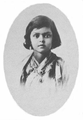 Maharani Gayatri Devi of Jaipur, as Princess of Cooch Behar